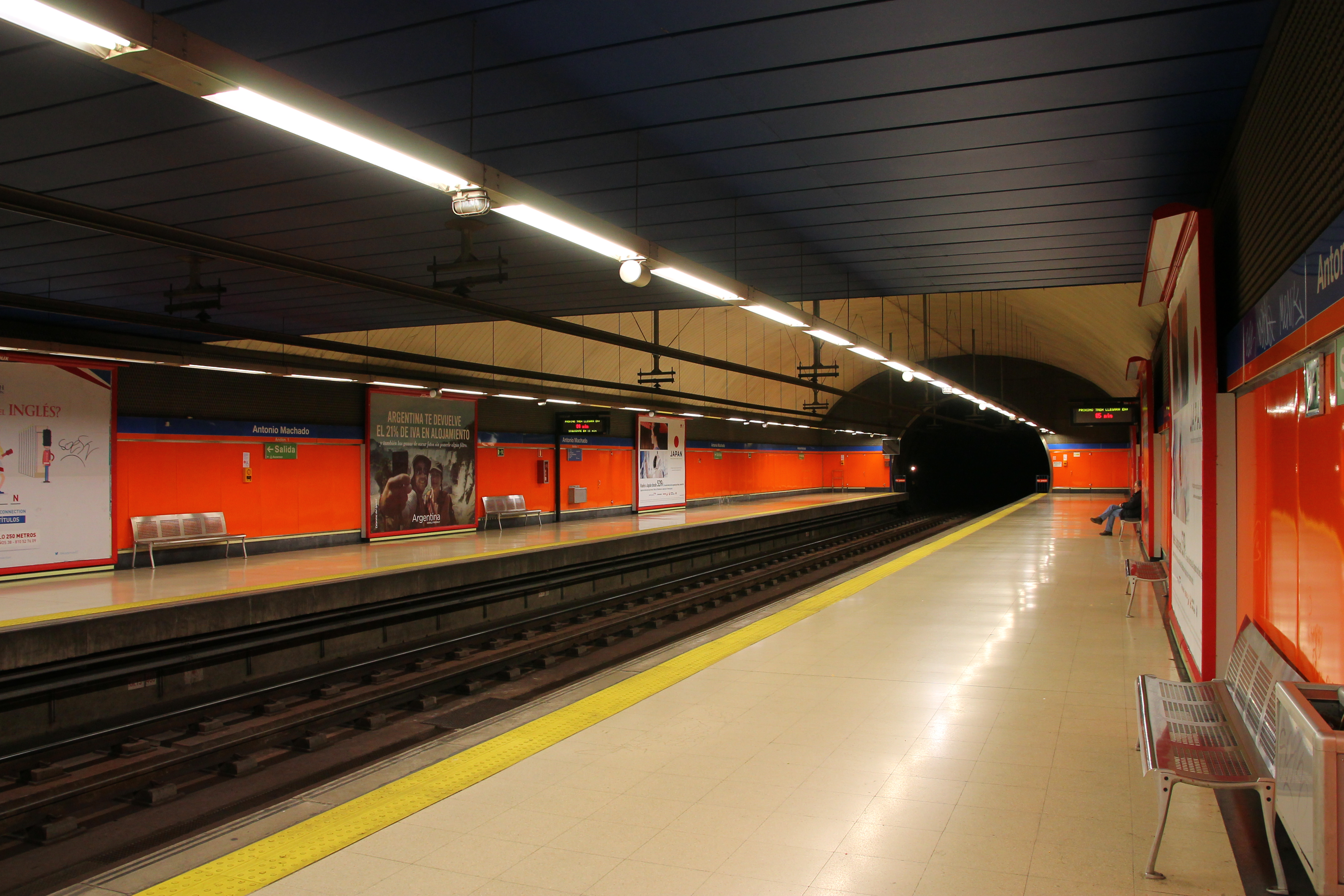 Estación de Antonio Machado